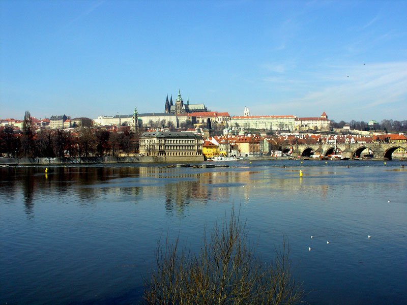 Prague castle (Hradčany) and part of Charles Bridge (Karlův most)